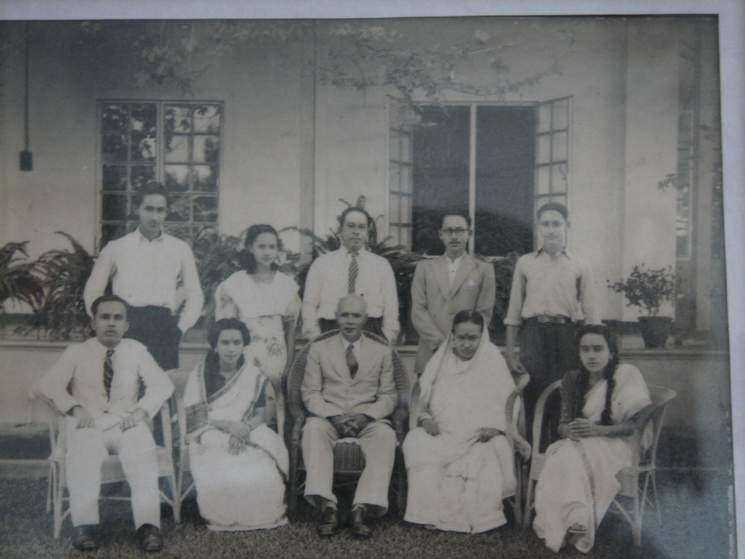 Nakul Chandra Bhuyan with his family at his home in Jorhat.